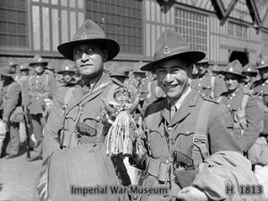 Officers from the Maori Battalion, 2nd New Zealand Division, arrive at Gourock in Scotland on 17 June 1940